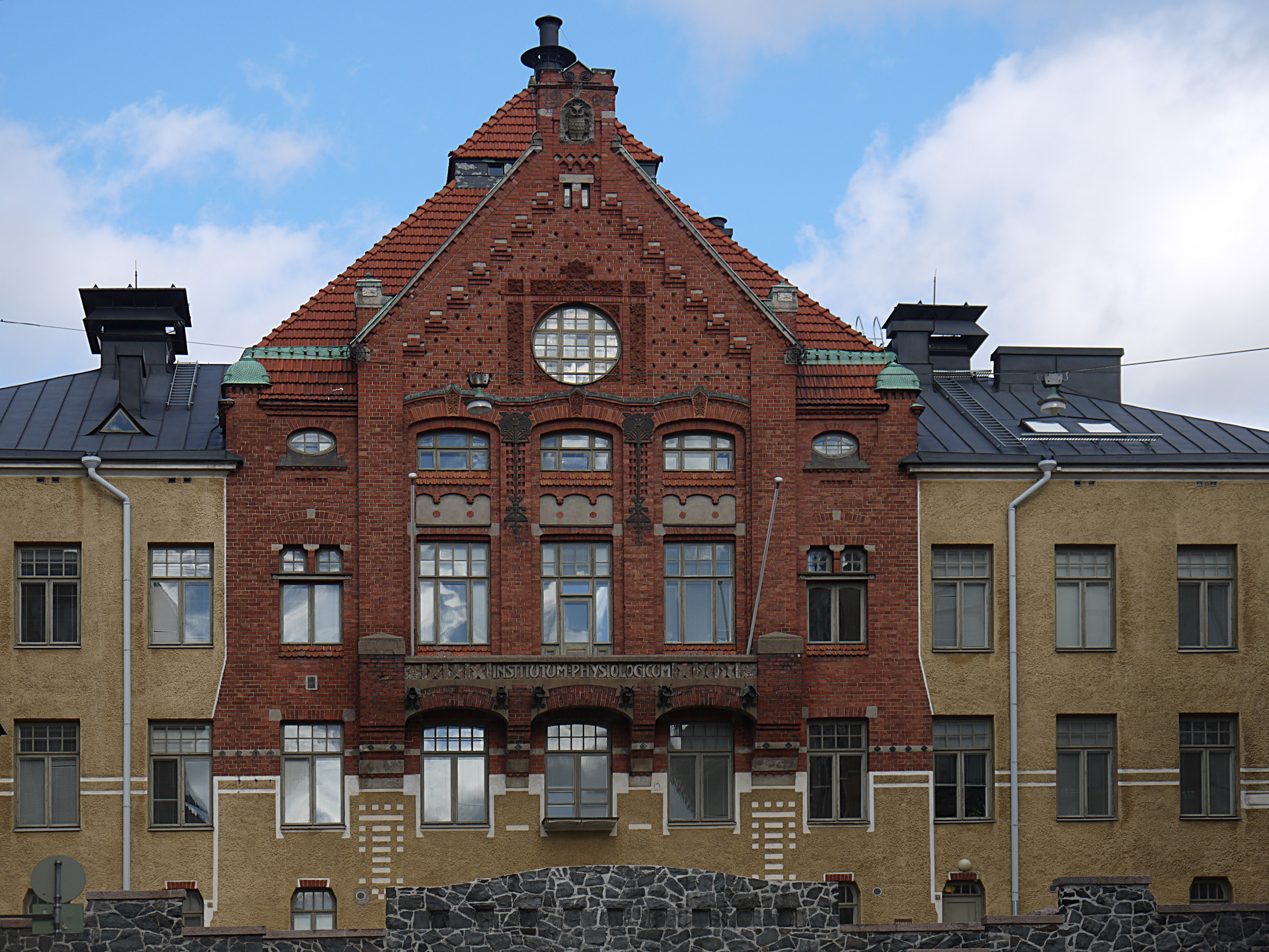 University of Helsinki, Faculty of Educational Sciences.